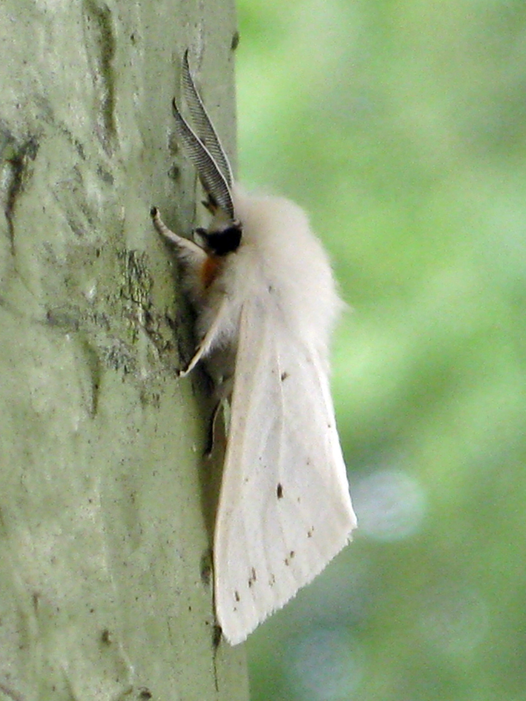 An adult specimen of Hyphantria cunea, commonly known as the fall webworm.